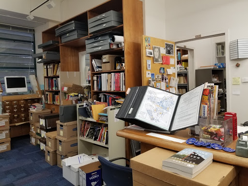 The Asian American Studies Center library/reading room in Campbell Hall.